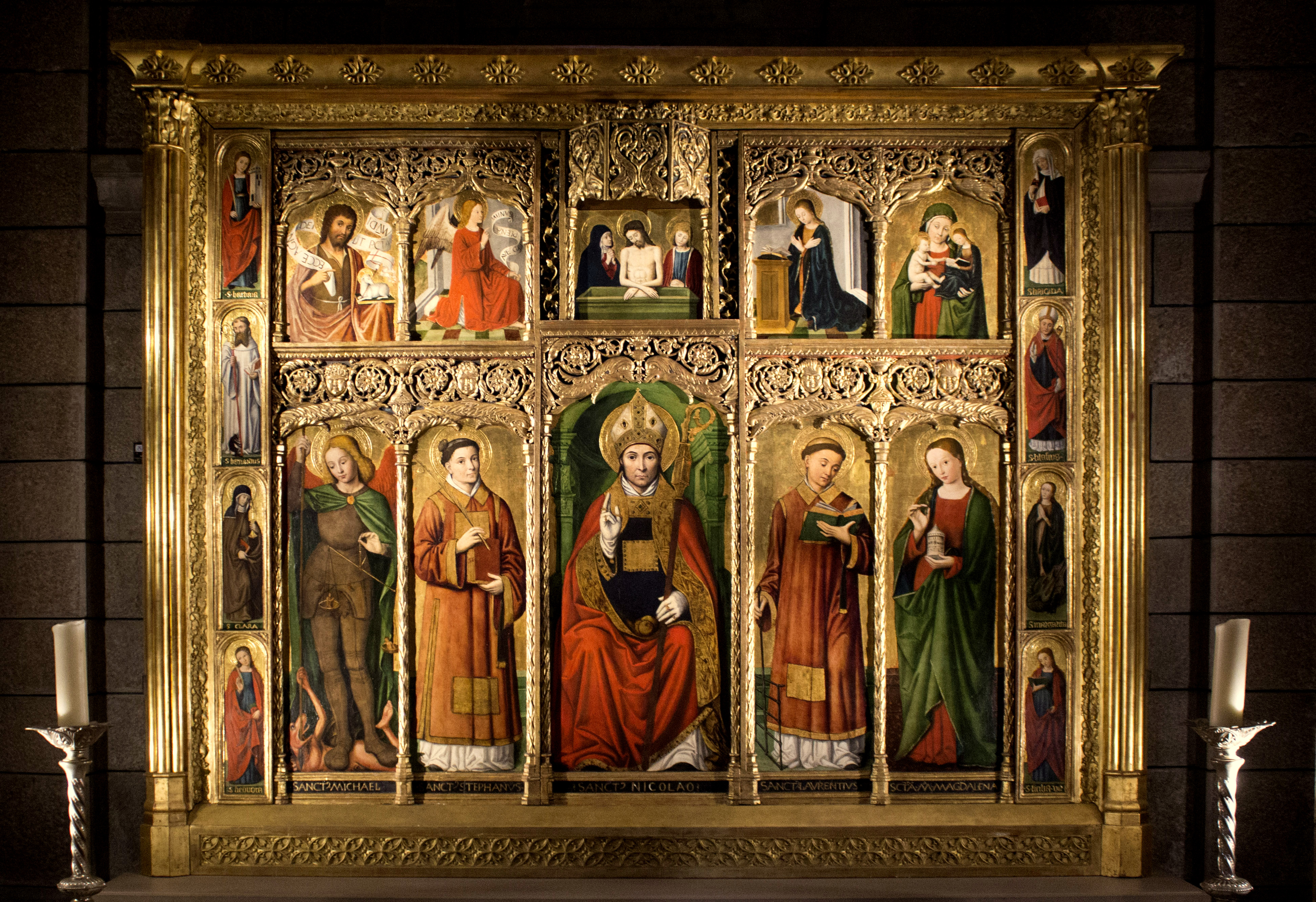 Altarpiece of St Nicolas - Ludovico Brea, 1500, Cathédrale, Monaco